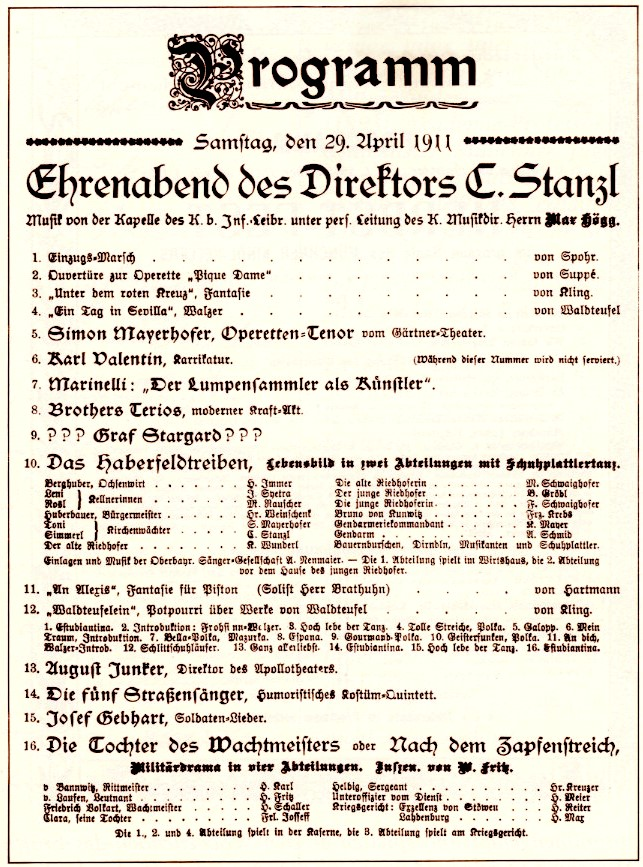 Programme of a jubelee performance